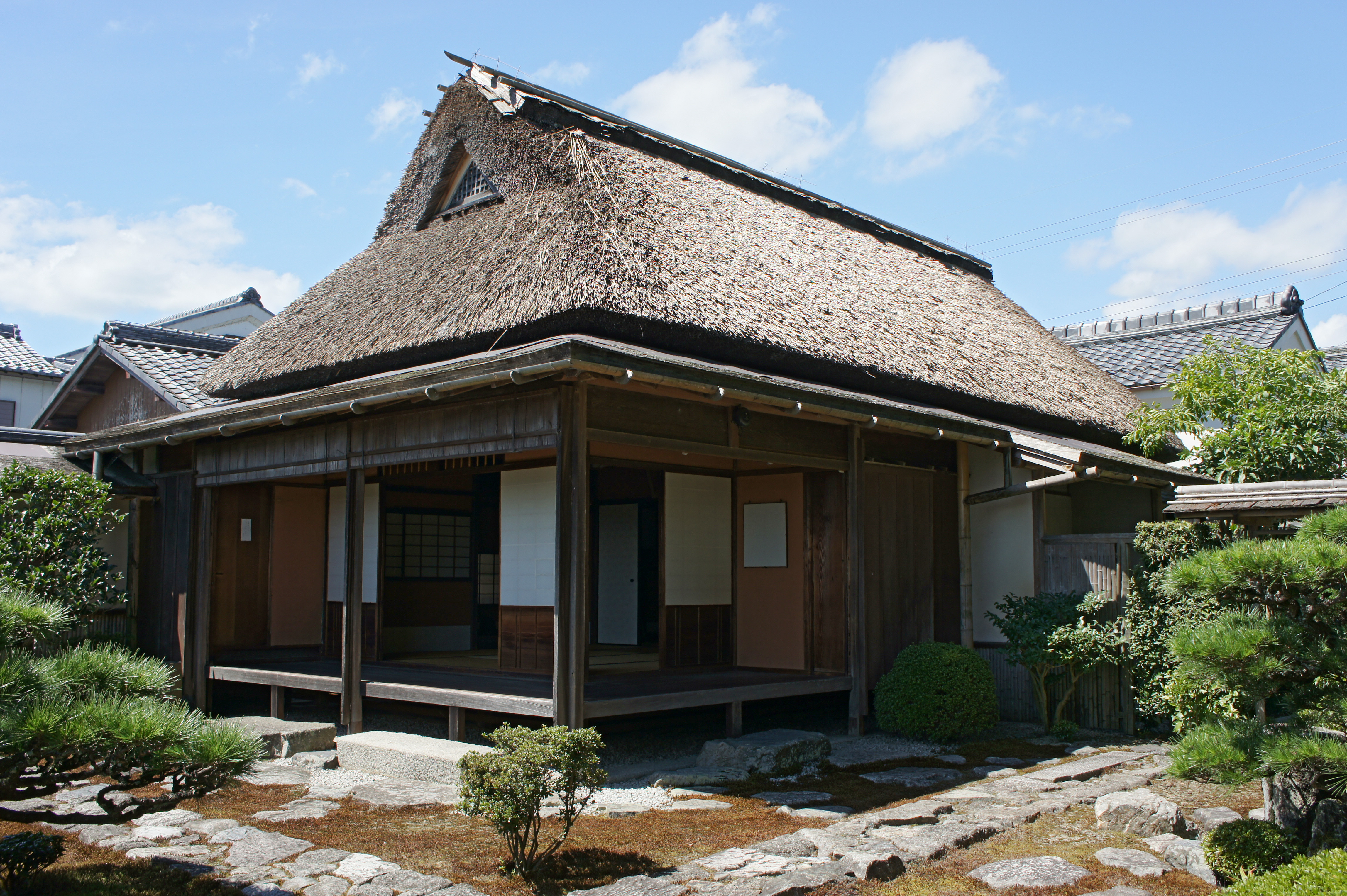 Isome-shi Garden in Otsu, Shiga prefecture, Japan.